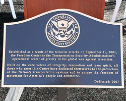 The Dedication Plaque at the newly renamed TSA Freedom Center.